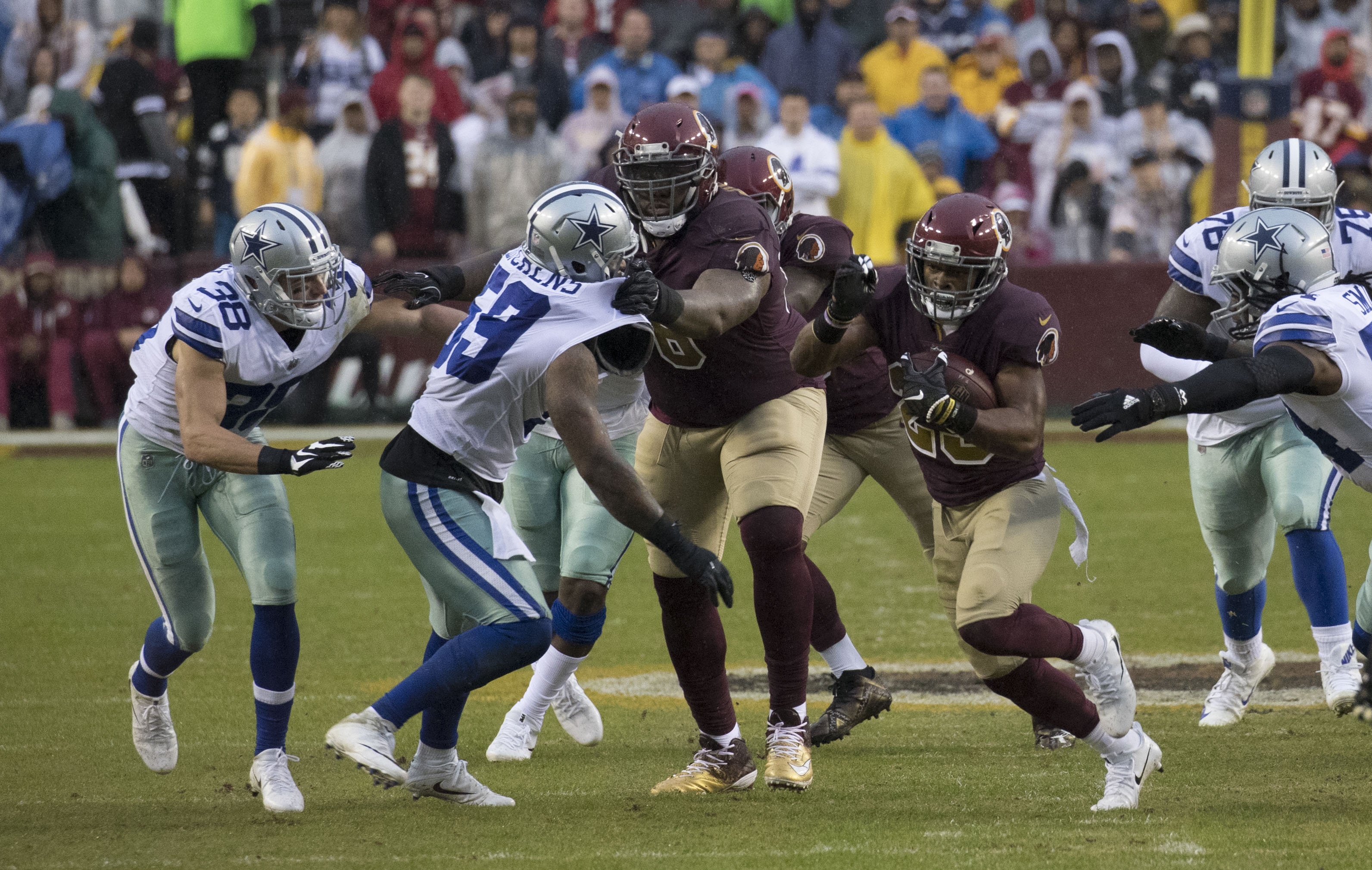 Cowboys at Redskins 10/29/17